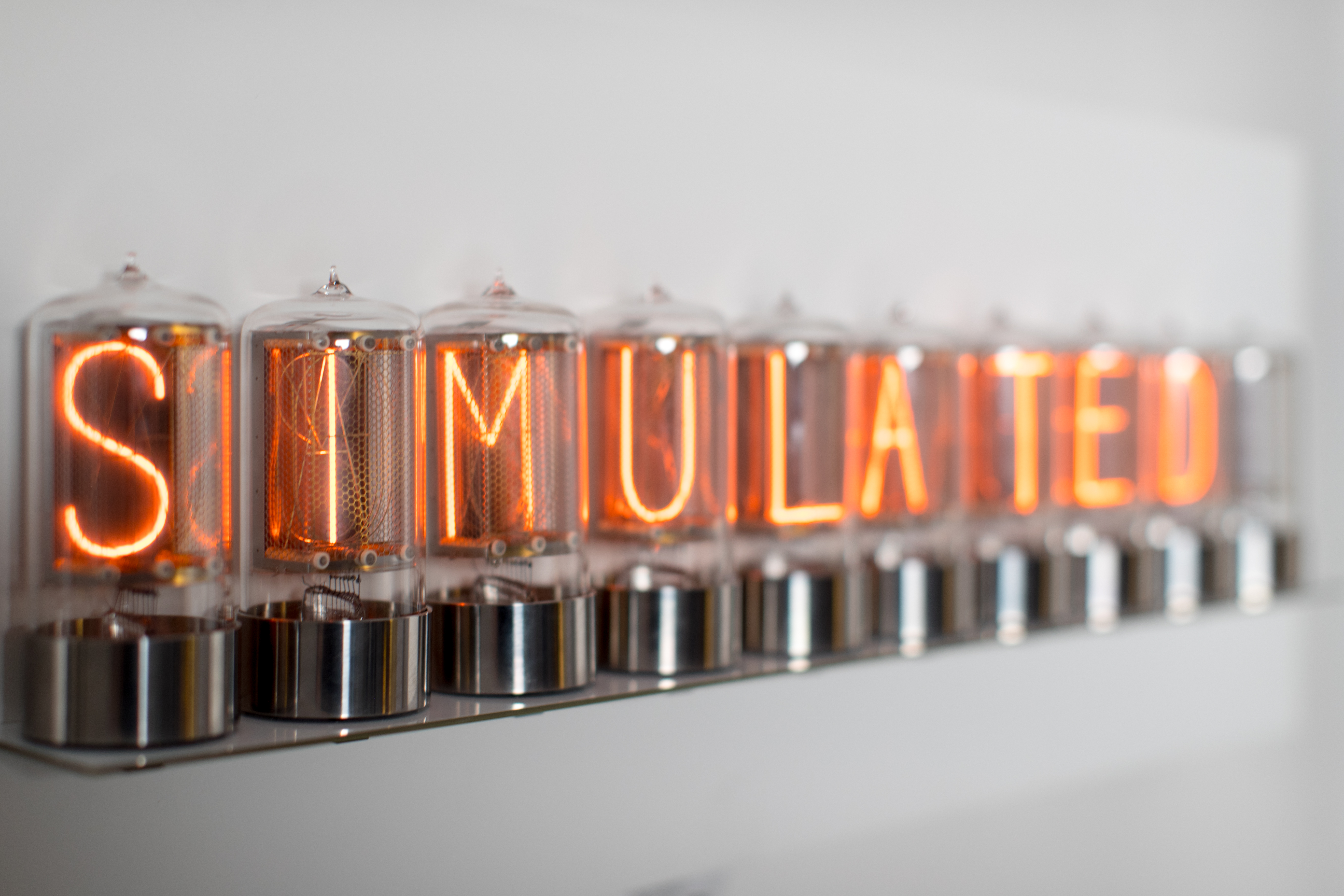 SIMULATED (10) artwork by Dominic Harris and produced by Cinimod Studio